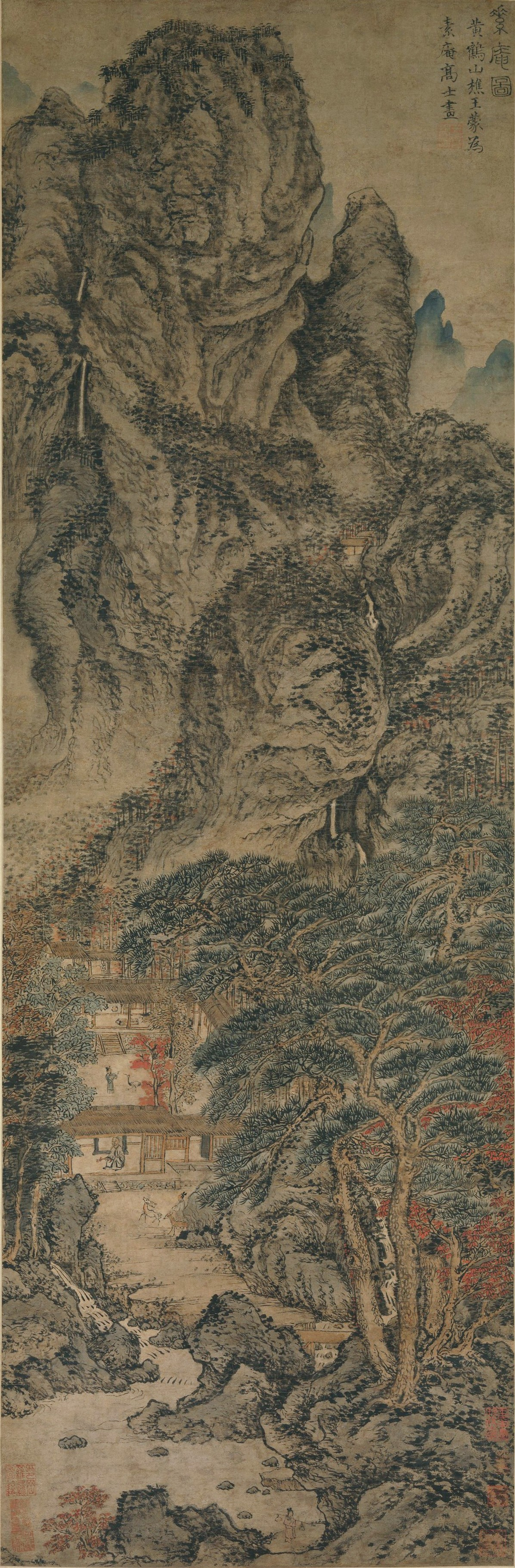 Wang_Meng_The_Simple_Retreat_Yuan_dynasty_136x45_cm,_ca_1370_Metmuseum_N-Y